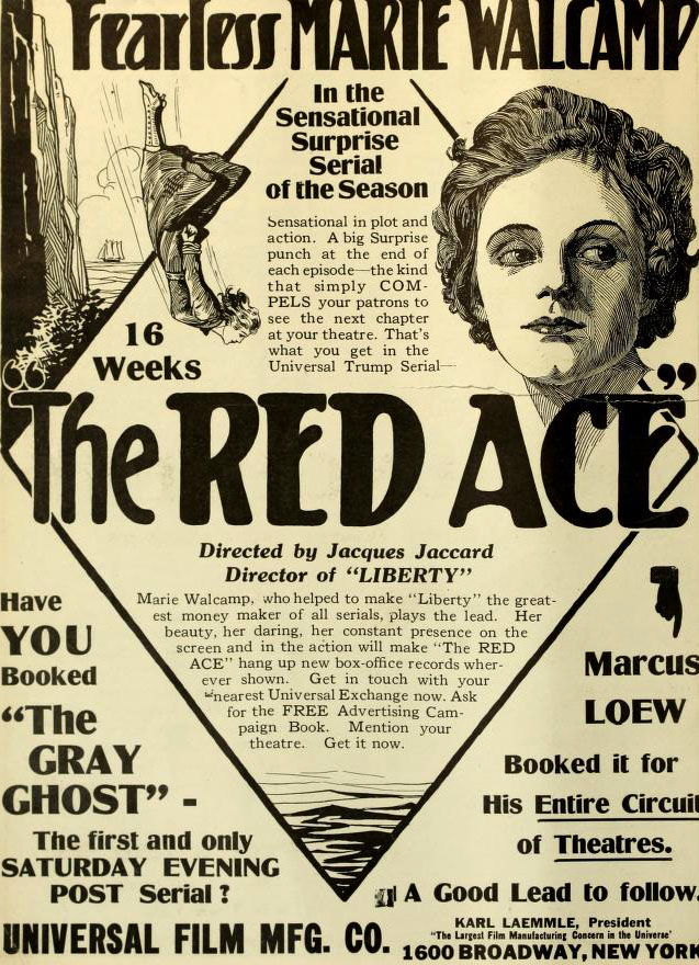 Advertisement in Moving Picture World for the American film serial The Red Ace (1917).